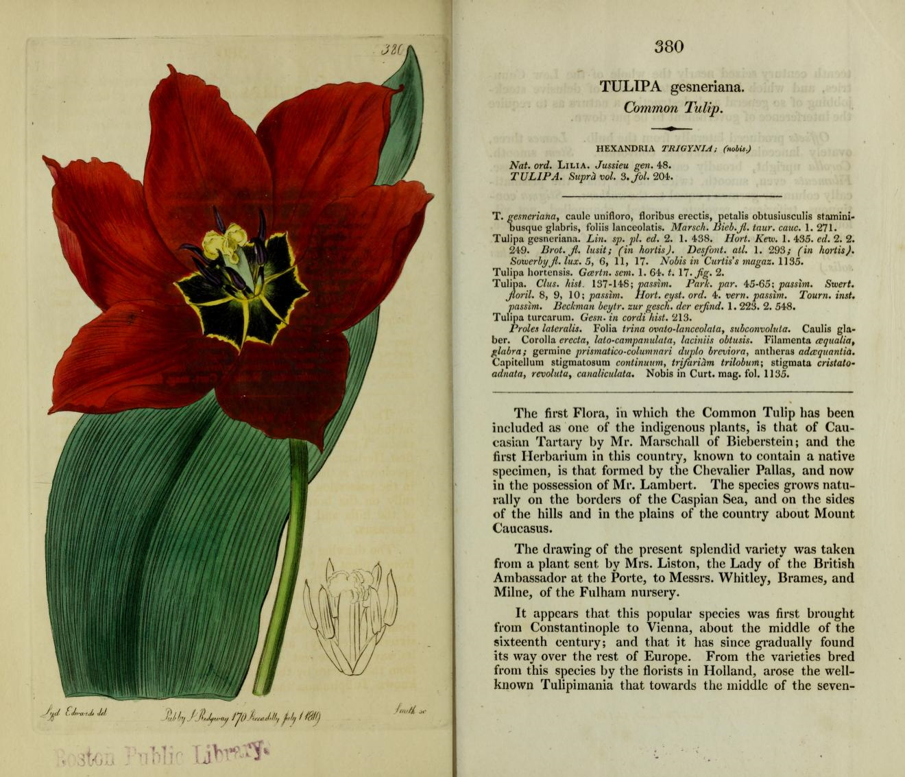 Illustration of Tulipa gesneriana (plate 380) taken from The Botanical Register: consisting of coloured figures of exotic plants, cultivated in British gardens; with their history and mode of treatment. Vol. V. by Sydenham Edwards, John Lindley and others. Published by James Ridgway, London, 1819. Digitized by Boston Public Library (Rare Books Department) copies of v.4,5: ex libris (bookplate) John Talbot, Earl of Shrewsbury by Edwards, Sydenham, 1768-1819. URL